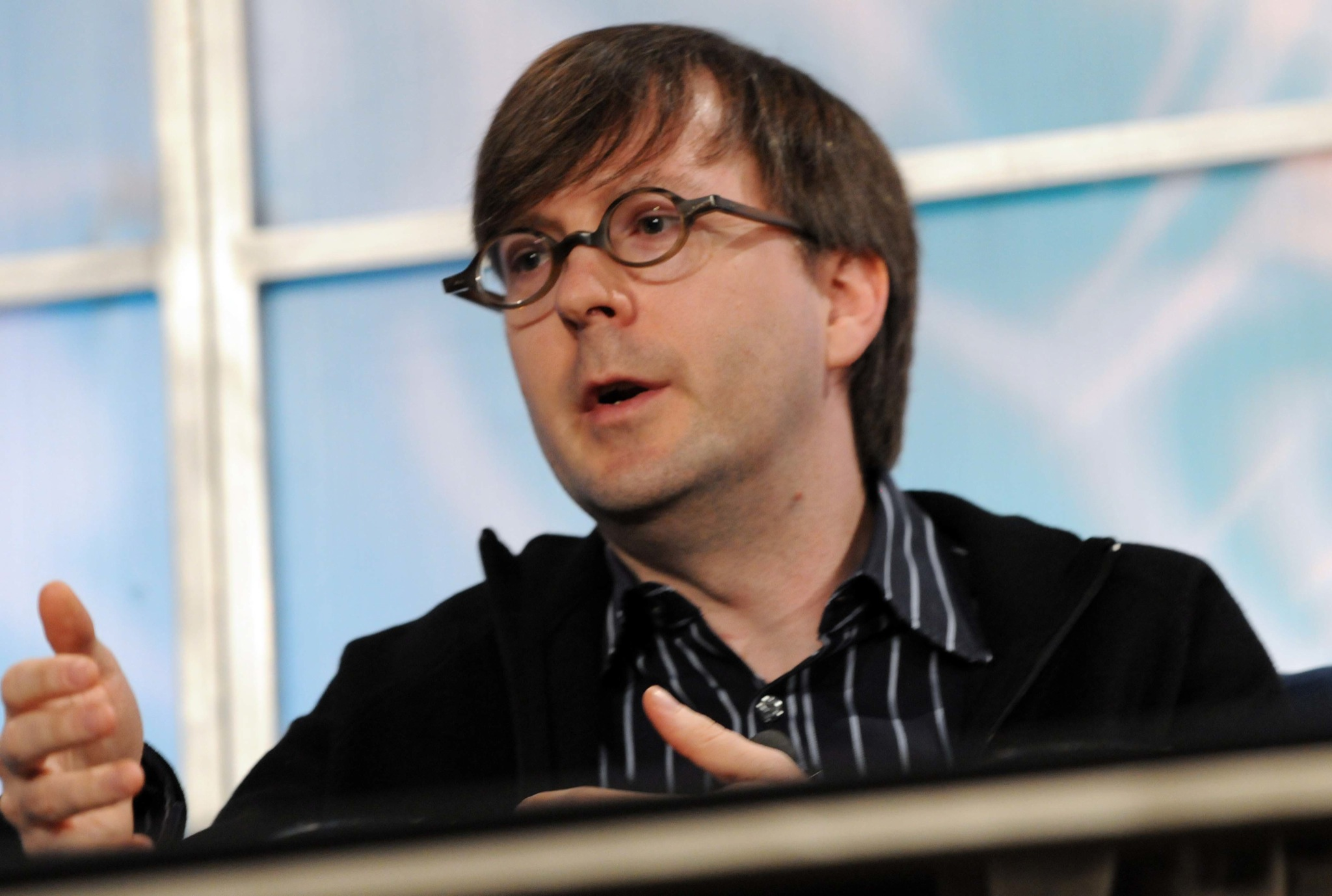 (CC) JD Lasica, socialmedia.biz. Noncommercial reproduction permitted. Please credit as shown.